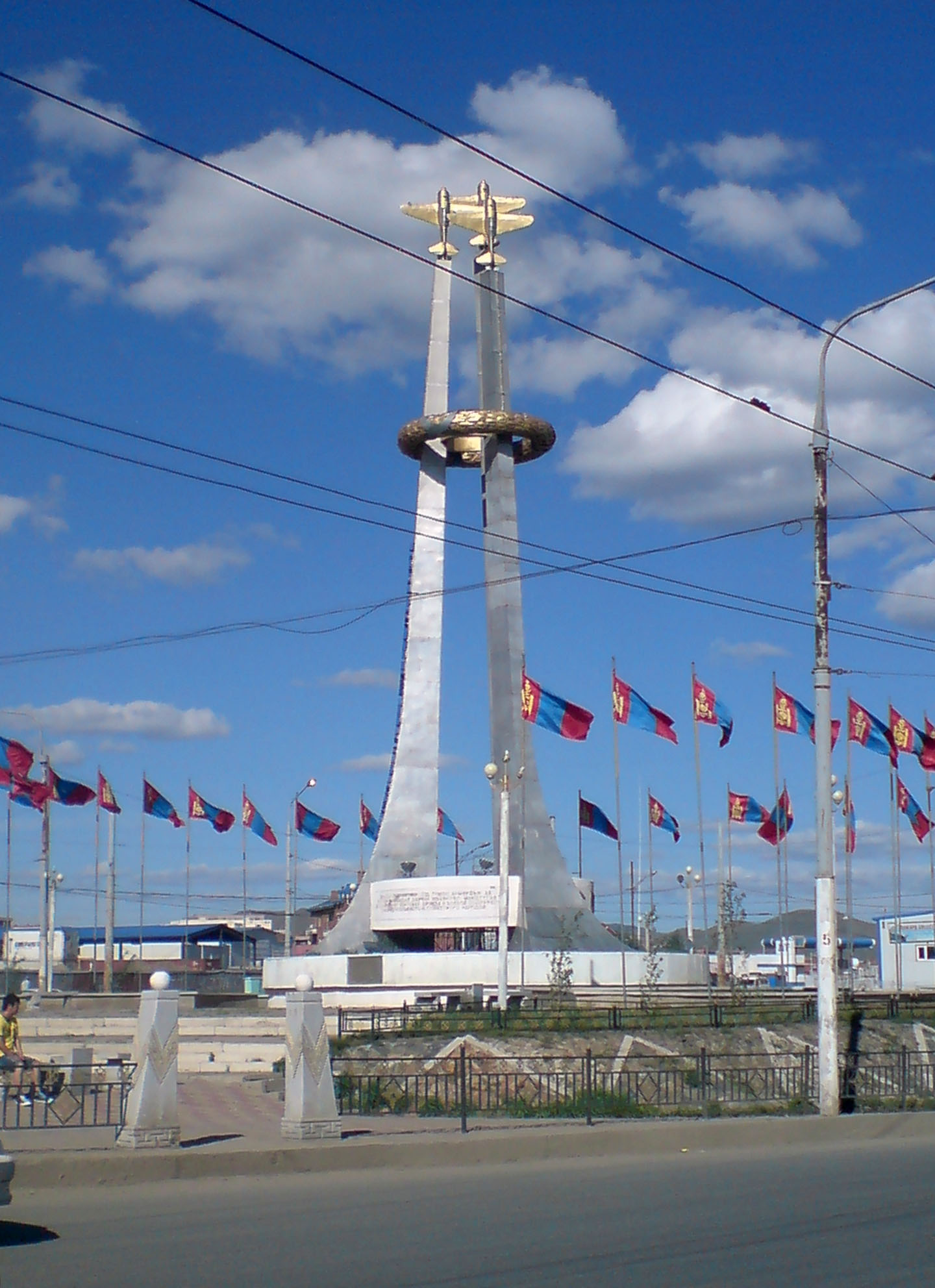 The monument to "Mongol Ard" Air Squadron in Ulan-Bator